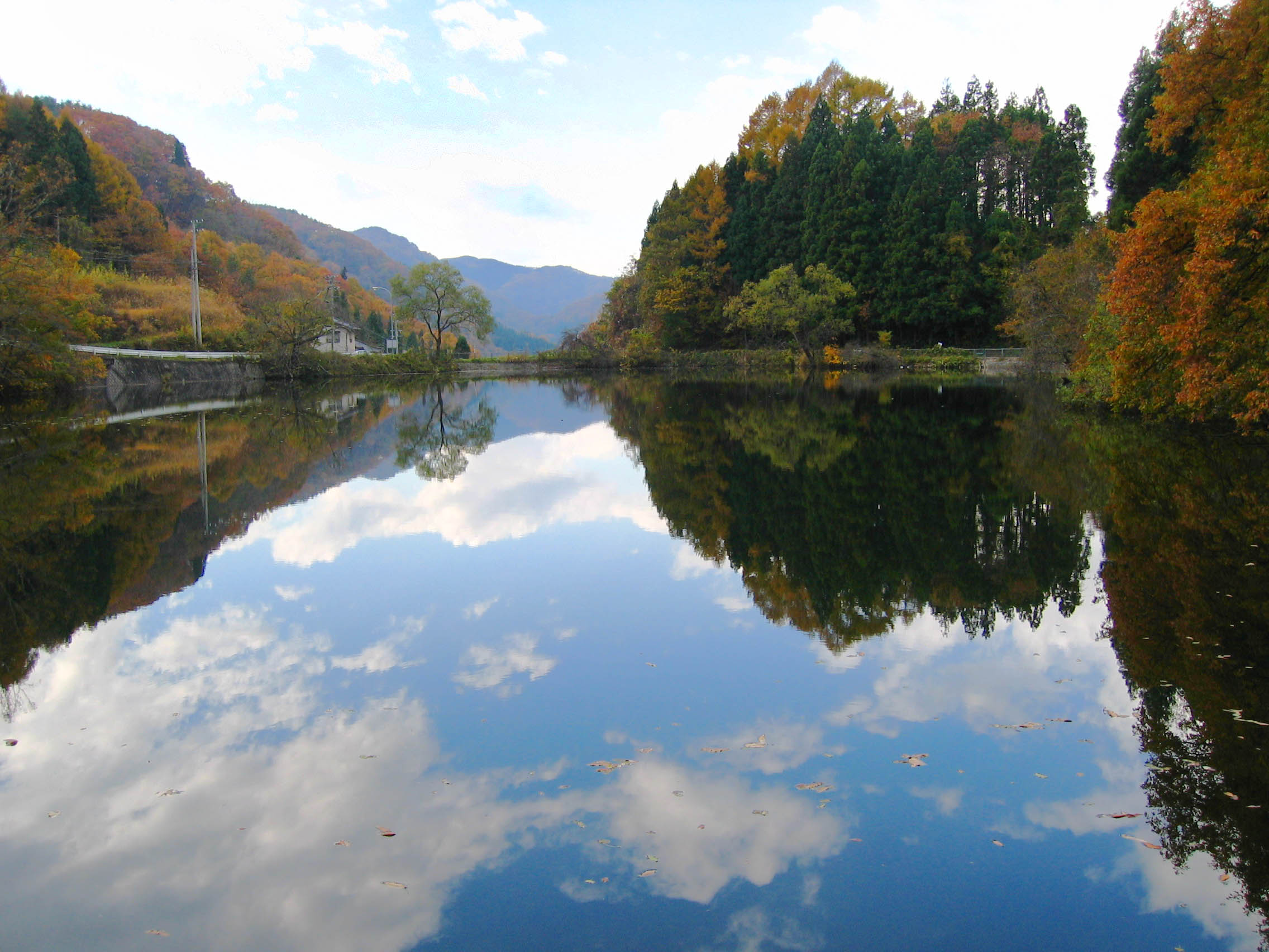 Yomeike (嫁殺しの池) is a pond in Nagano city, Nagano prefecture, Japan.